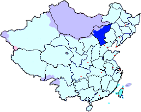 Created by Pryaltonian for maps of Mainland provinces of the Republic of China. Adapted from